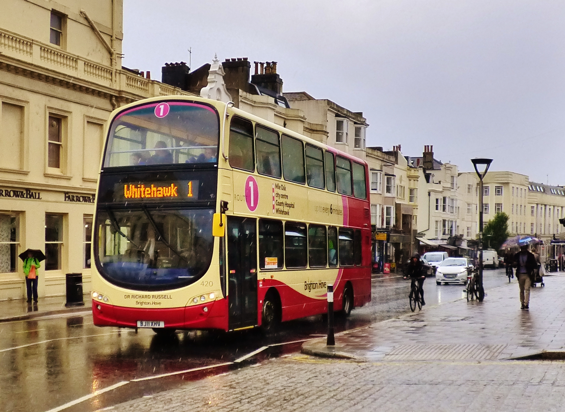 Brighton and Hove Buses